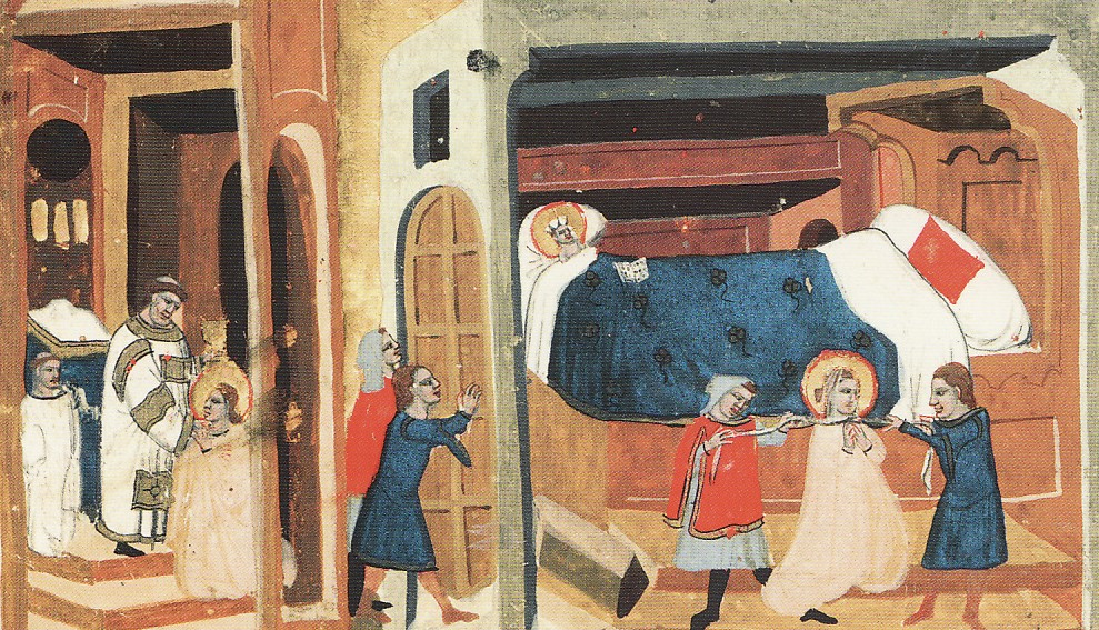 Murder of Saint Ludmila in Chronicle of so called Dalimil. Wenceslaus I, Duke of Bohemia is depicted as child.